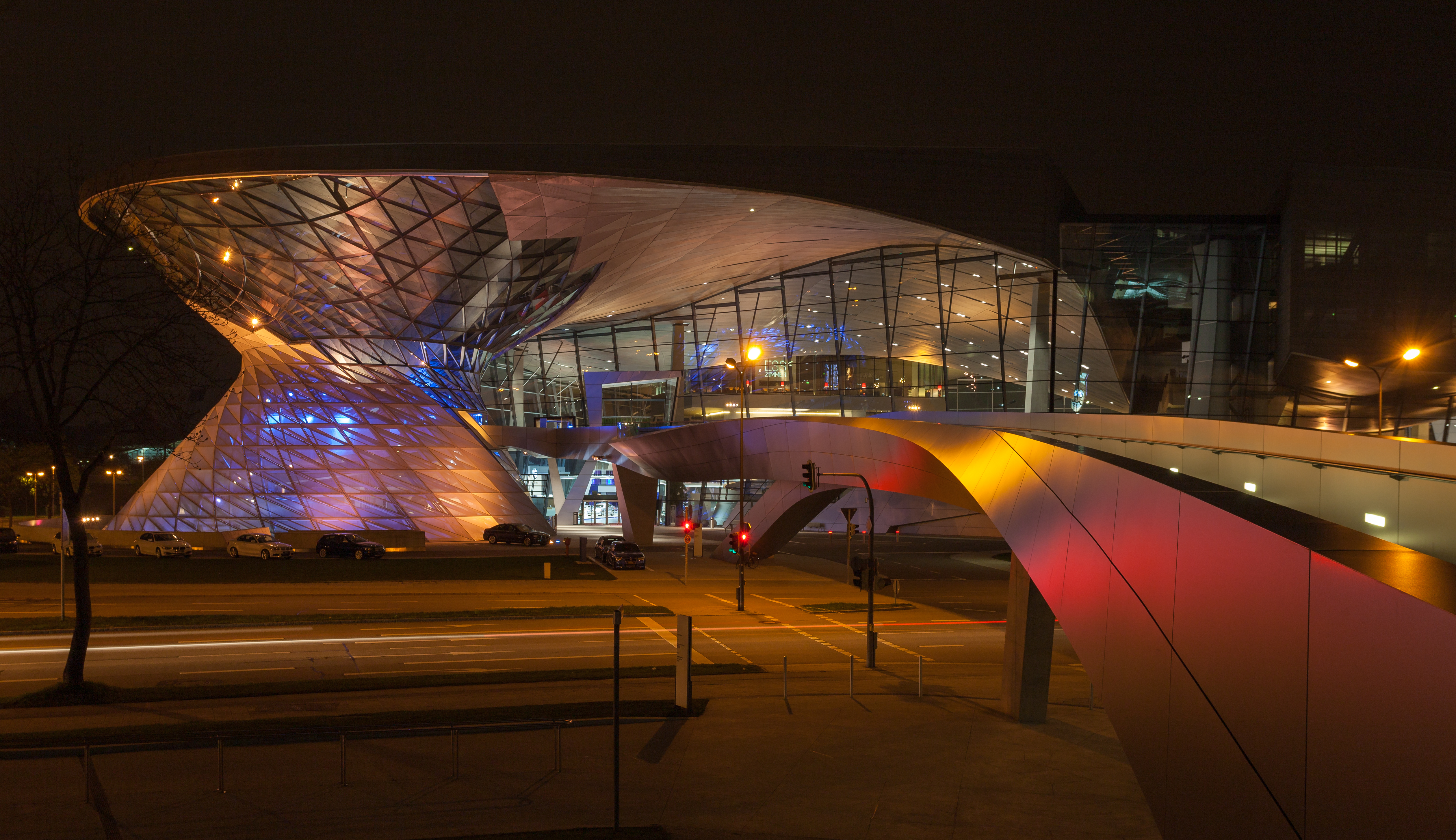 BMW Welt, Munich, Germany